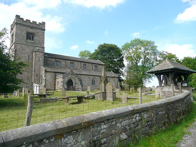 St Peter's Church, Rylstone Built in 1853, and designed by E G Paley, according to Pevsner.